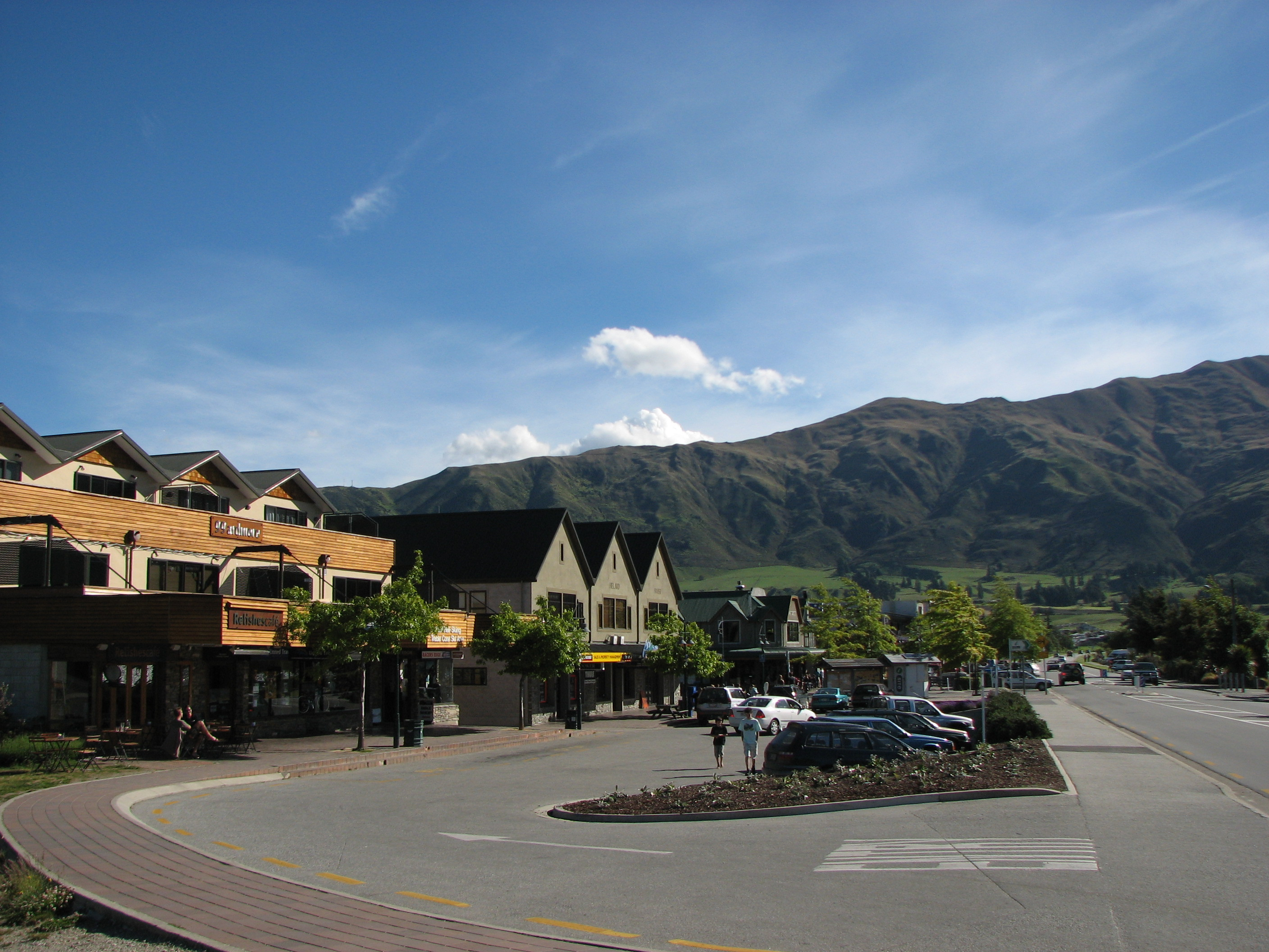 Wanaka, New Zealand, on a clear spring day.